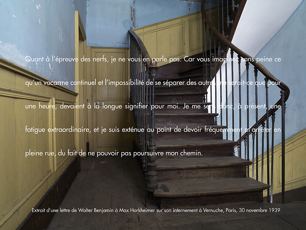 Work on the exile of German philosopher Walter Benjamin (with Nathalie Raoux)